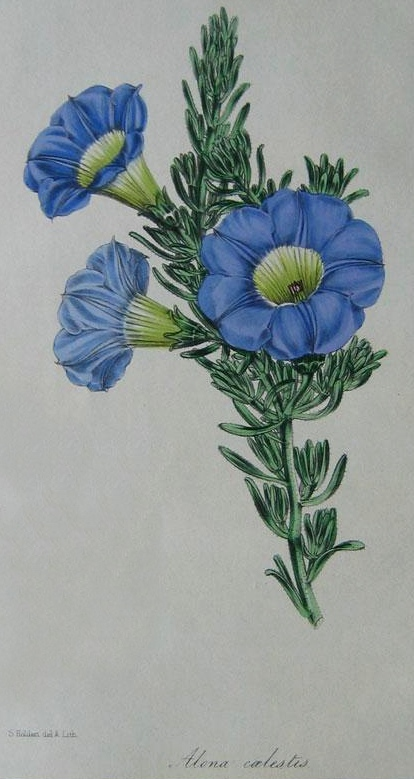 Cerulean-flowered Alona (Alona calestis; Nolana coelestis)